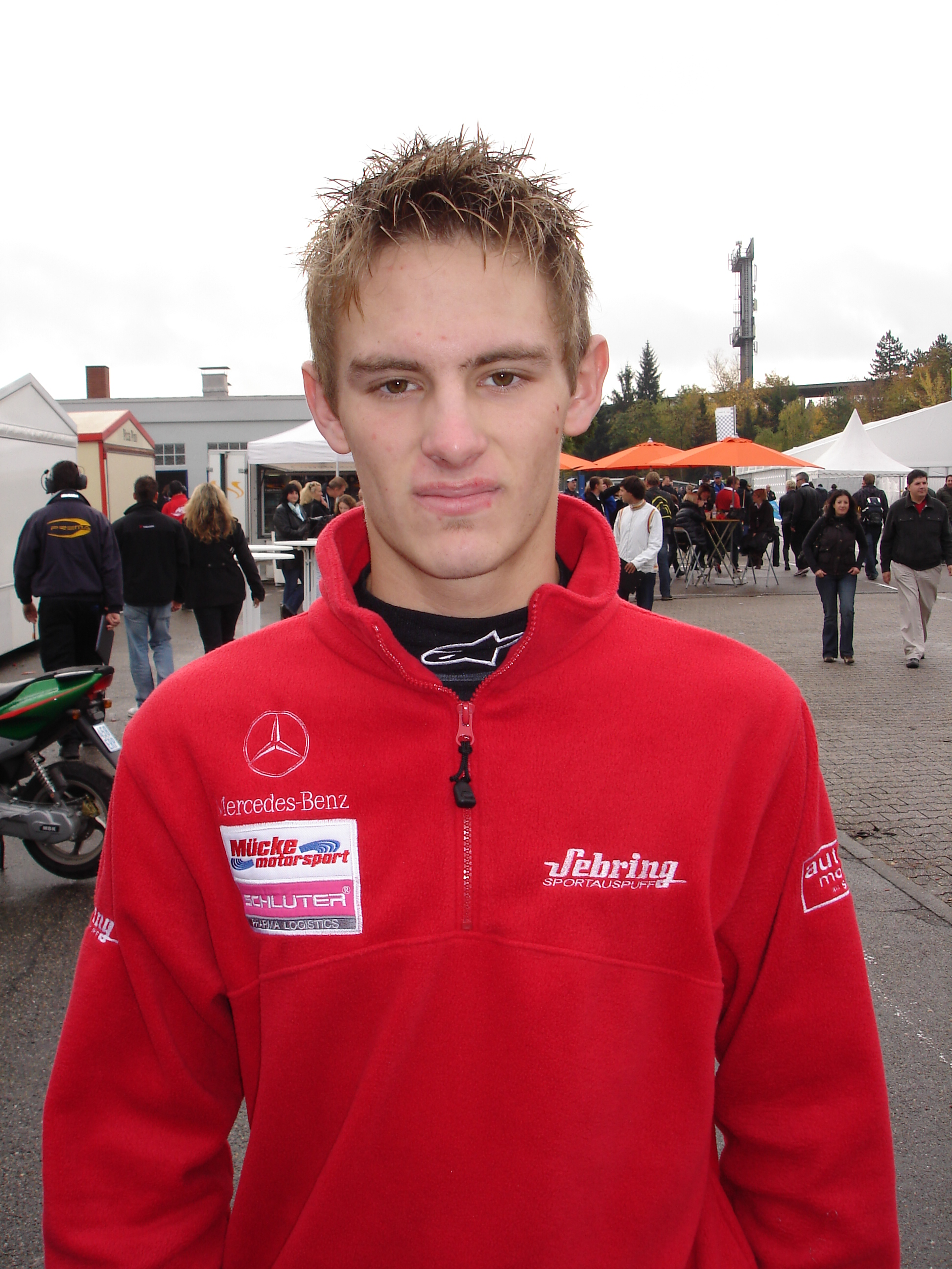 Marco Wittmann: the photo was taken during 2009's second DTM race weekend at Hockenheim